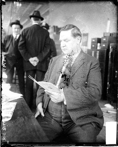 Portrait of Bill Haywood, organizer of the Industrial Workers of the World, sitting at a table at a convention in Chicago in 1917.